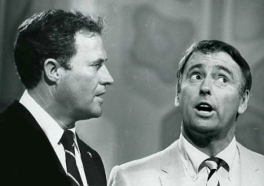 Publicity photo of Dan Rowan (left) and Dick Martin (right) from Rowan & Martin's Laugh-In.